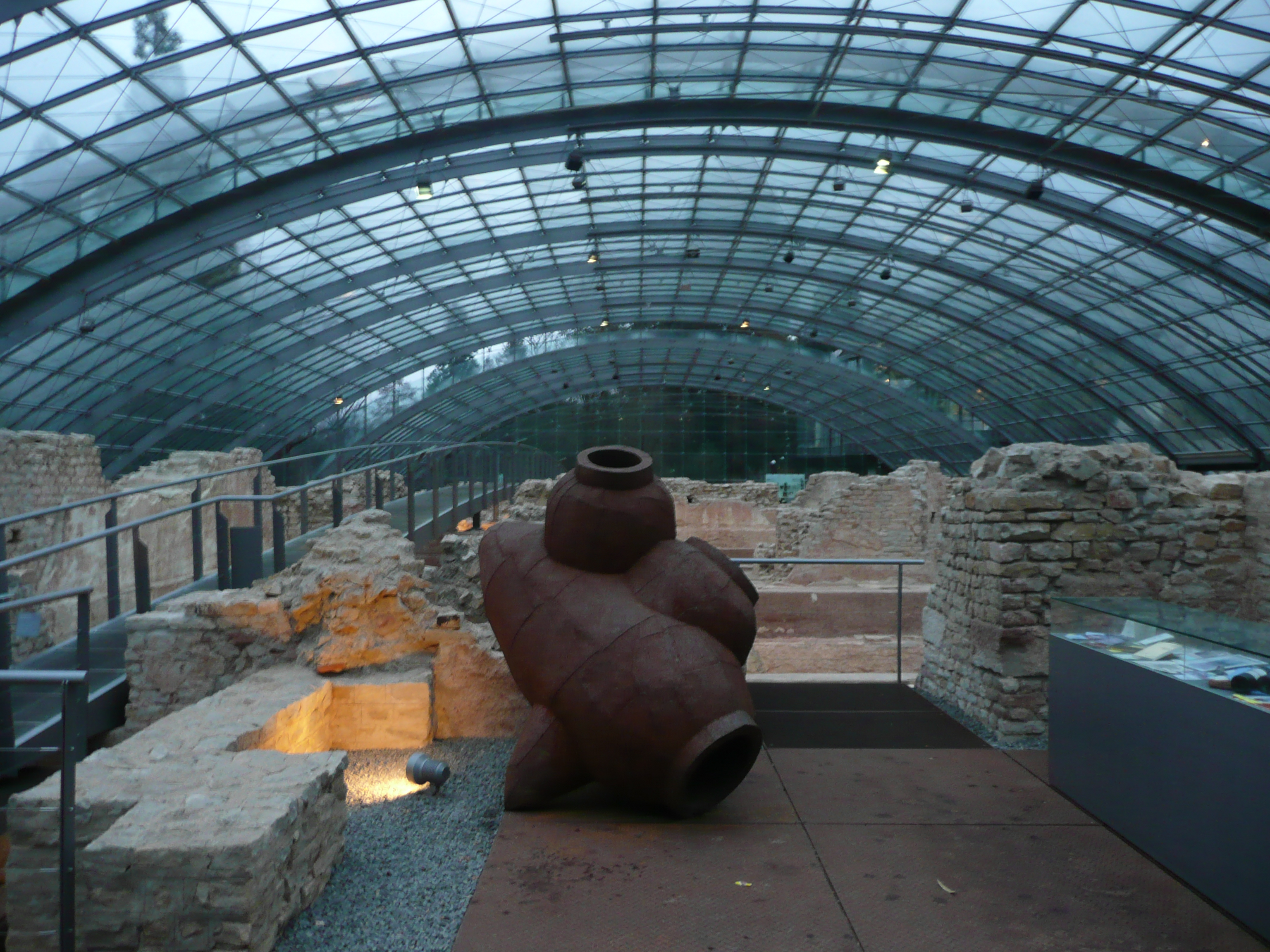 Roman bath ruin in Badenweiler